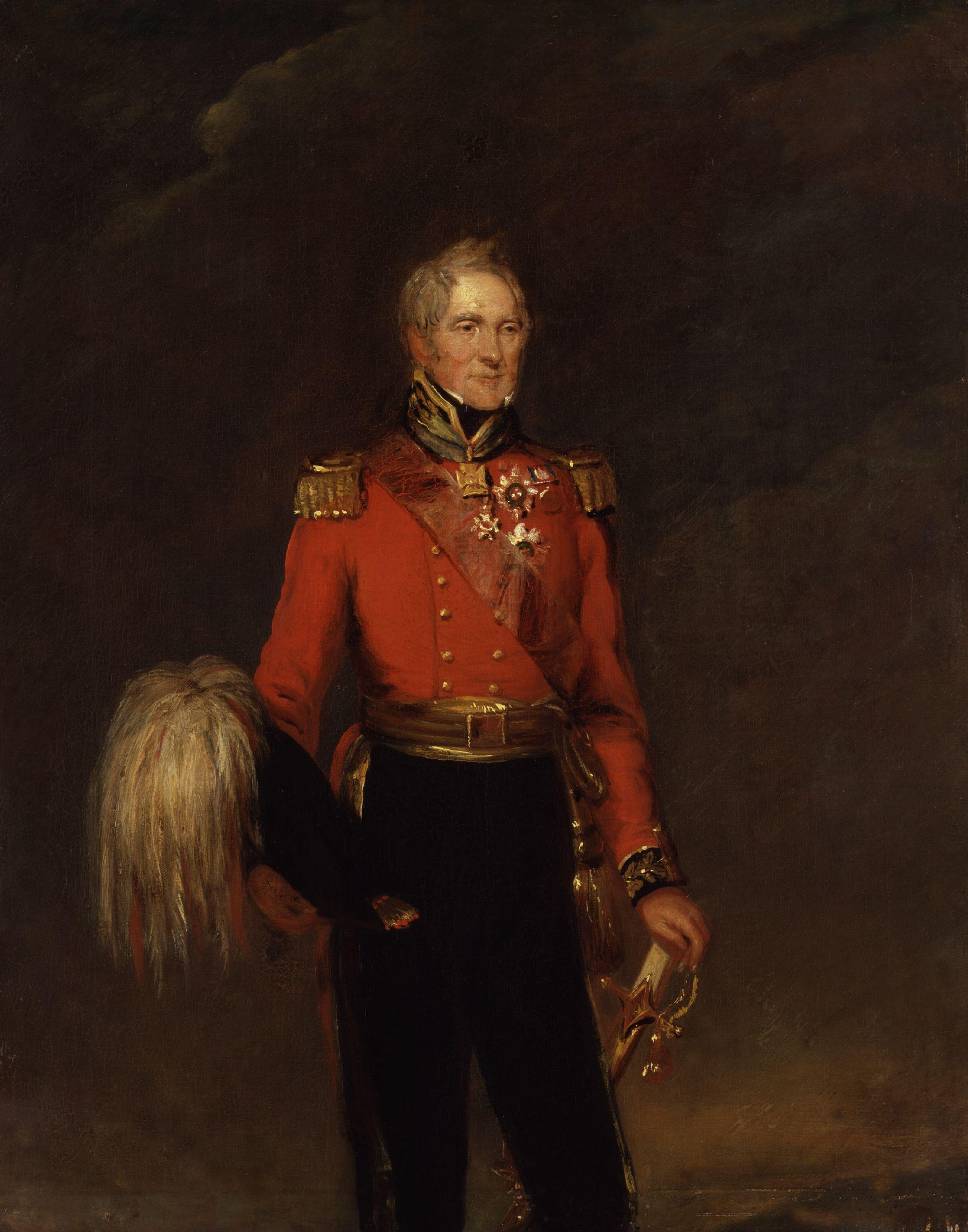 Sir John Ormsby Vandeleur, by William Salter (died 1875). All images in this batch have been confirmed as author died before 1939 according to the official death date listed by the NPG.